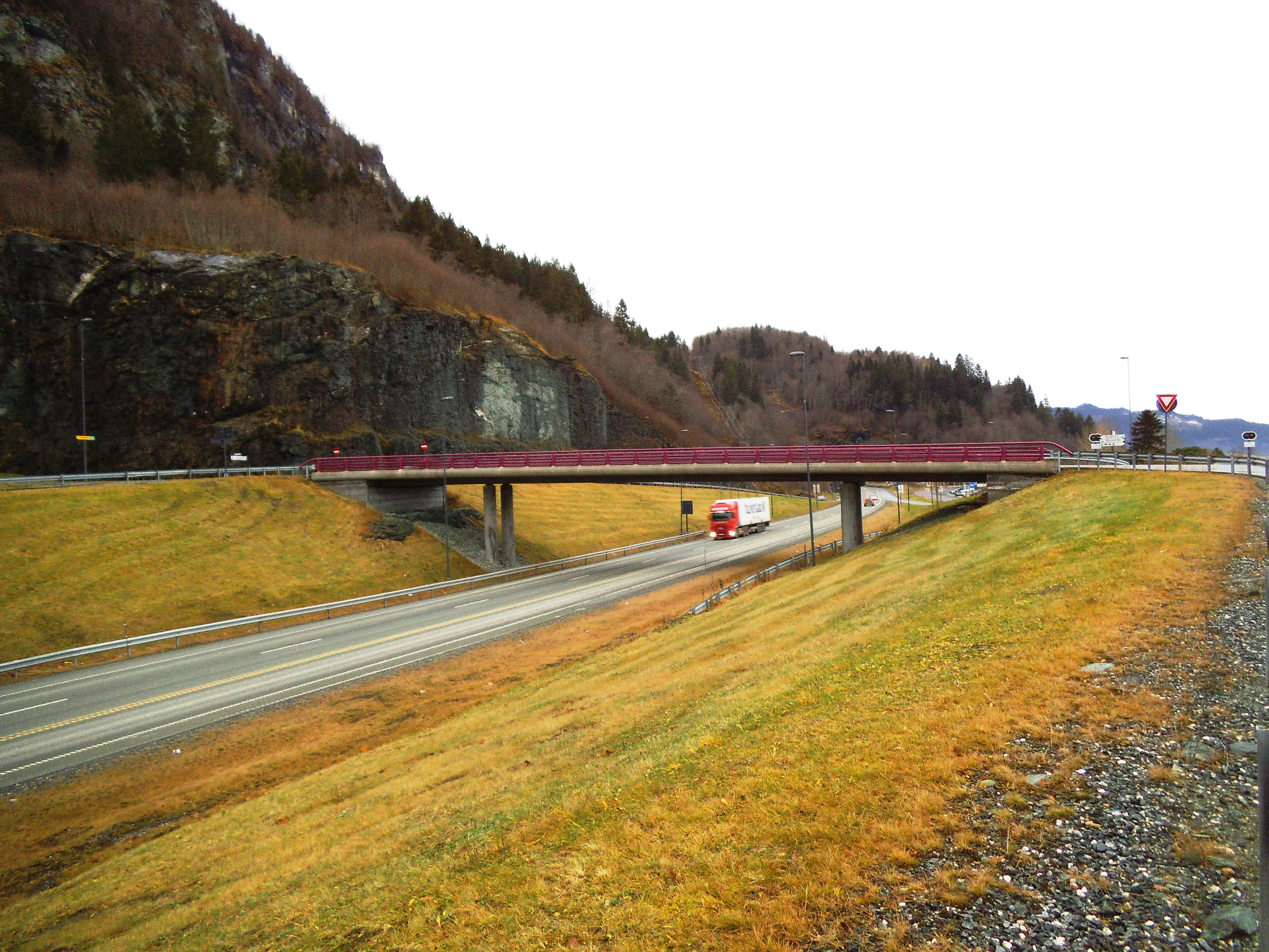 A road bridge in Øysand, Melhus. Fylkesvei 800.